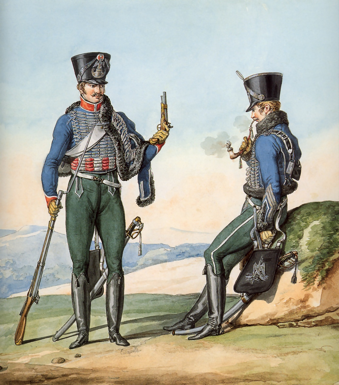 1st Regiment of Hussars. Part of a series chronicling the uniforms of Napoleon's Grande Armée.